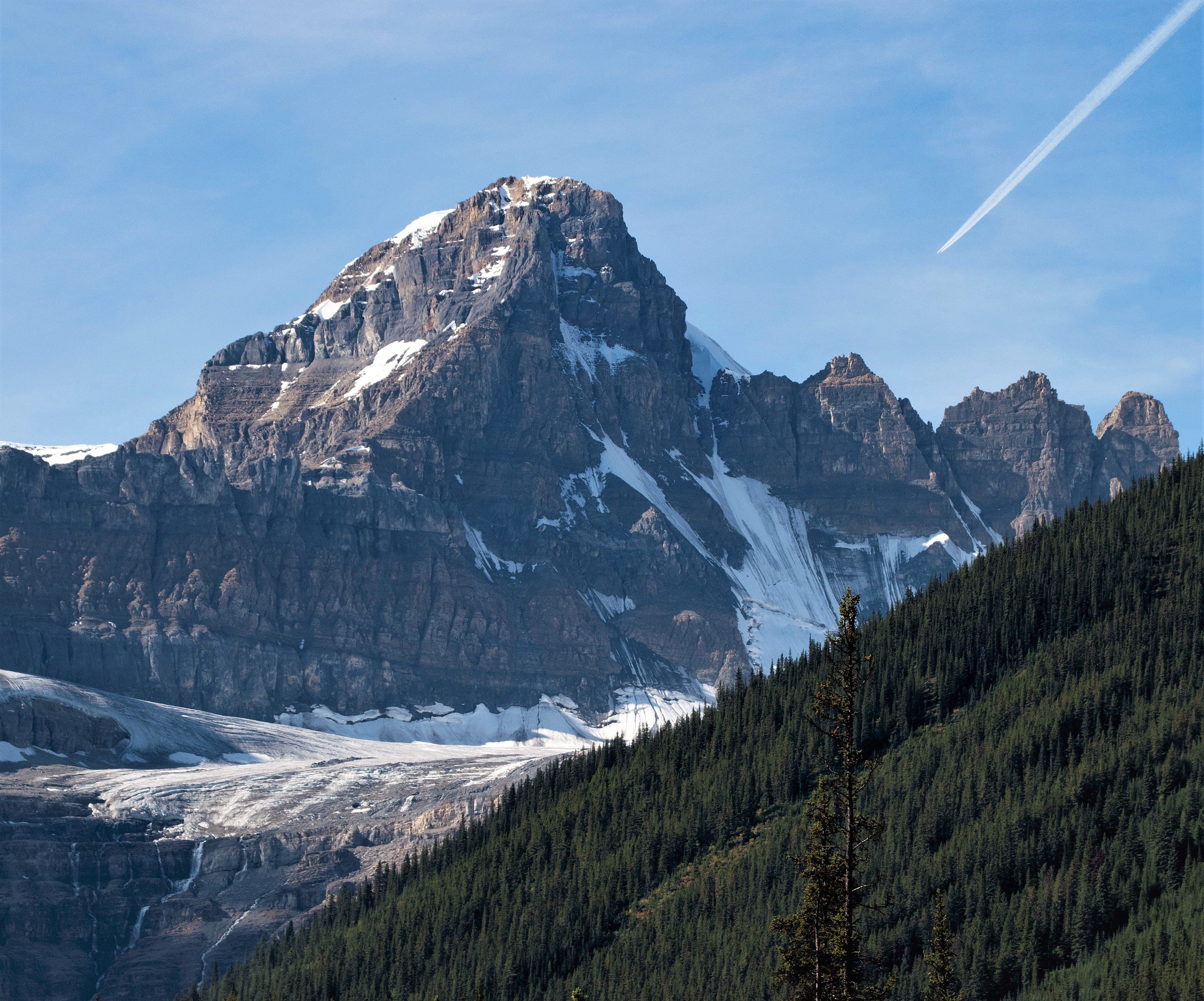 Diadem Peak (elevation: 3,371 m, 11,060 ft) is a peak located in the Sunwapta River Valley of Jasper National Park, Canada. Diadem Peak is essentially the high point of a ridge leading down from the slightly higher Mount Woolley (3,405 m, 11,171 ft). This peak was the first 11,000er north of the Columbia Icefield to be climbed, and one of the few peaks in the Canadian Rockies to be climbed before 1900. The mountain was named in 1898 by the first ascent team of J. Norman Collie, Hugh Stutfield and Hermann Woolley. Upon reaching the summit, they discovered a crown (diadem) of snow about 30 m (98 ft) high covering the almost flat layer of rocks on top.